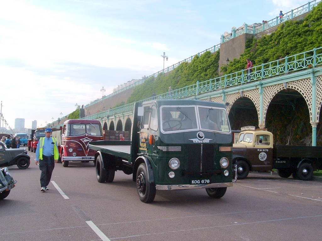 Leyland Beaver flatbed truck 1948. It is painted with "J.N. Doe & Sons, haulage" on the side (John Doe(?)).